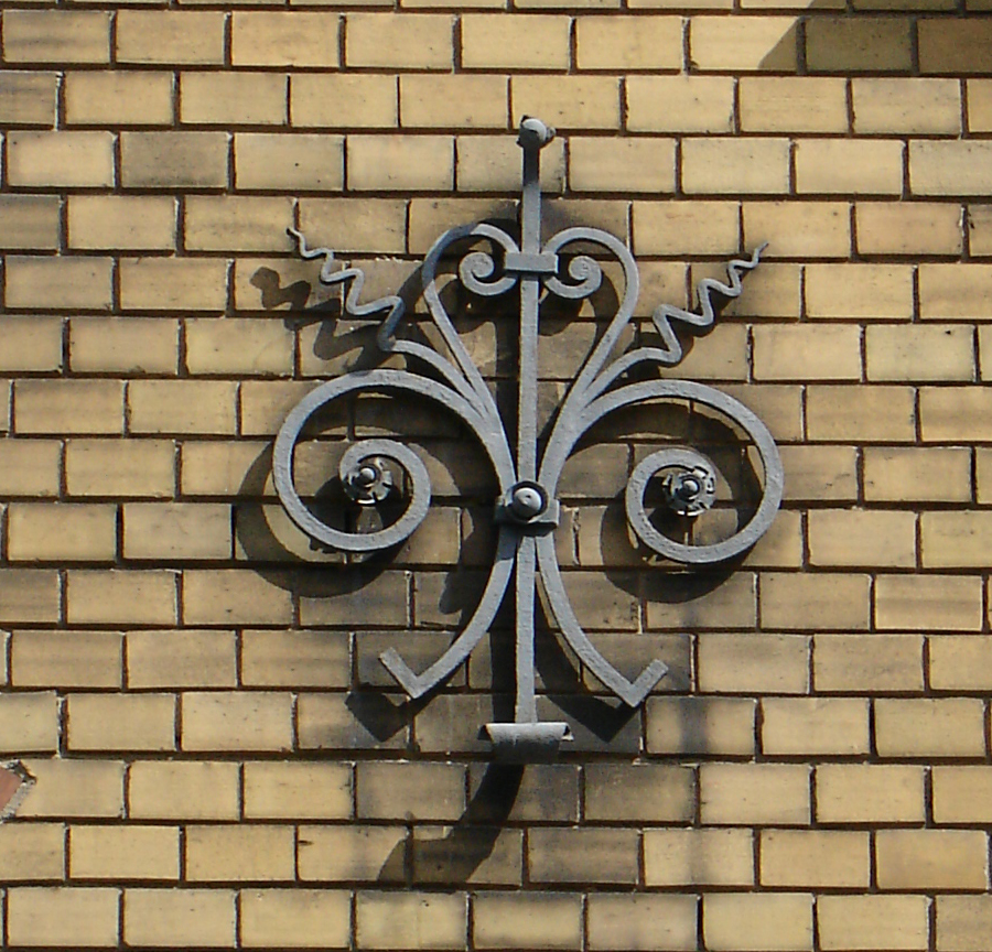 Wall anchor - Dresden building